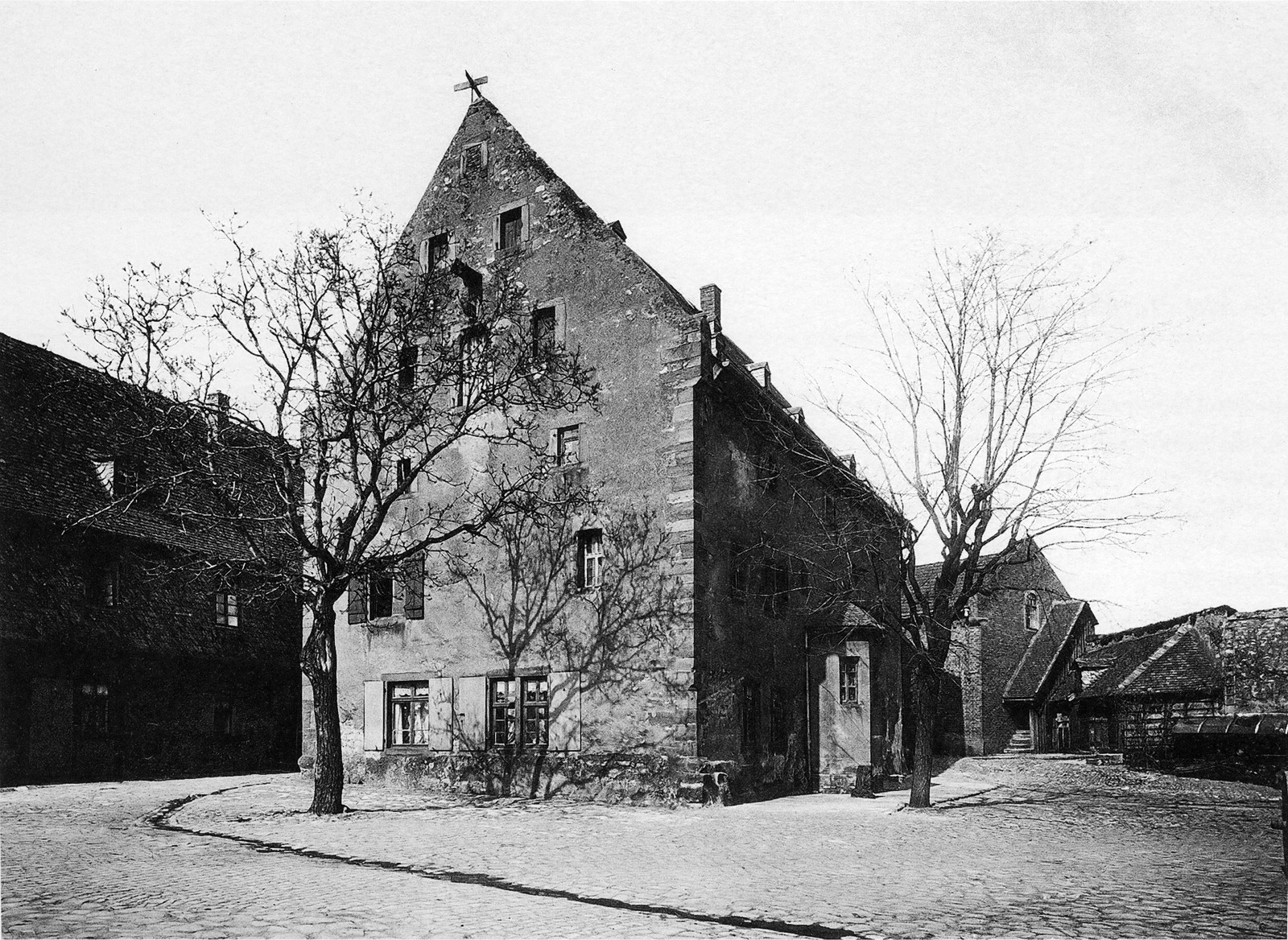 Frankfurt on the Main: Principal building of the Grosser Riederhof